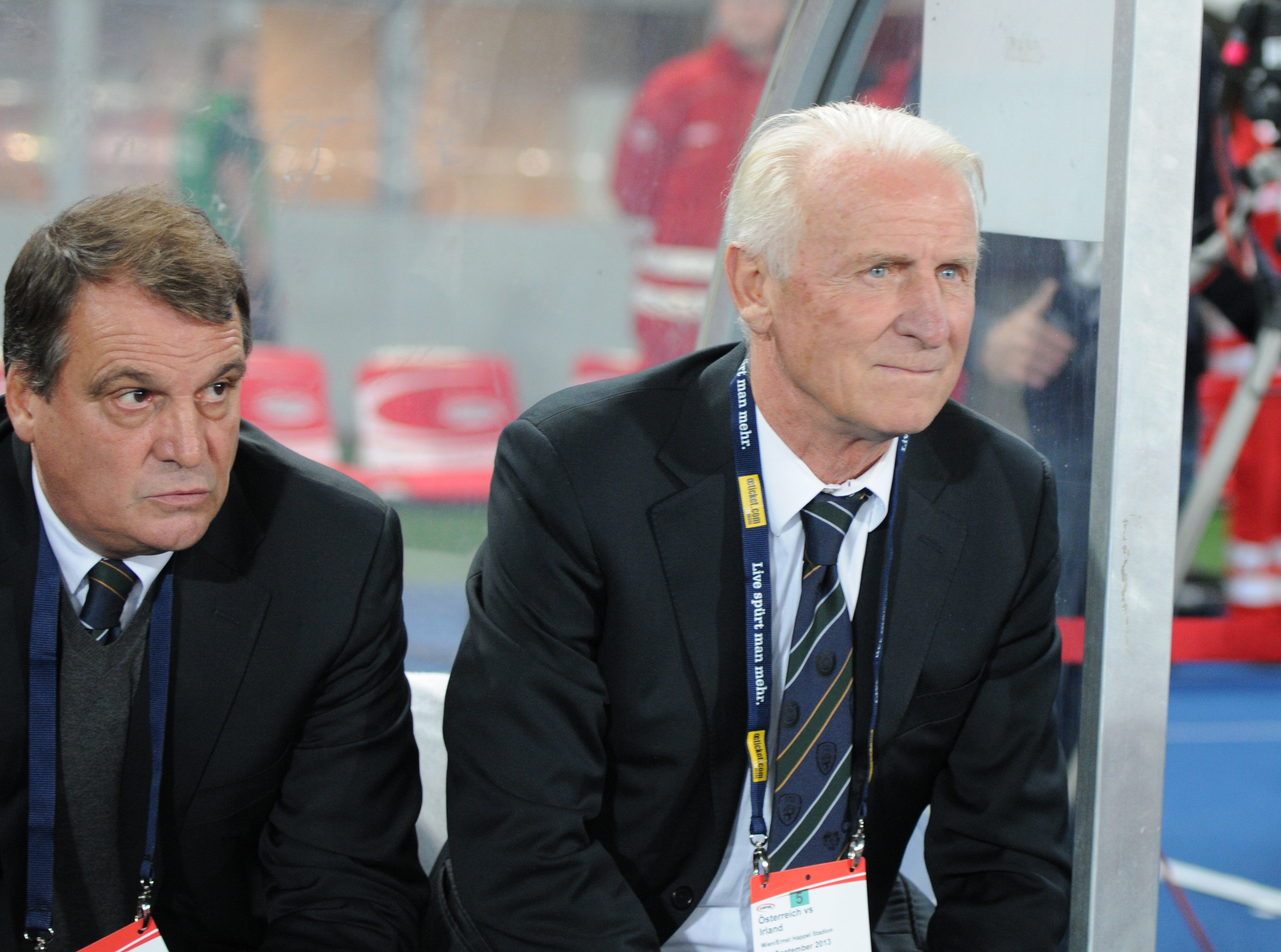 2014 FIFA World Cup qualification (UEFA), Group C: Republic of Ireland national football team at 10. September 2013 before the match against the Austria national football team (0:1) in the Ernst-Happel-Stadion in Vienna. Here: Giovanni Trapattoni, Irish head coach.